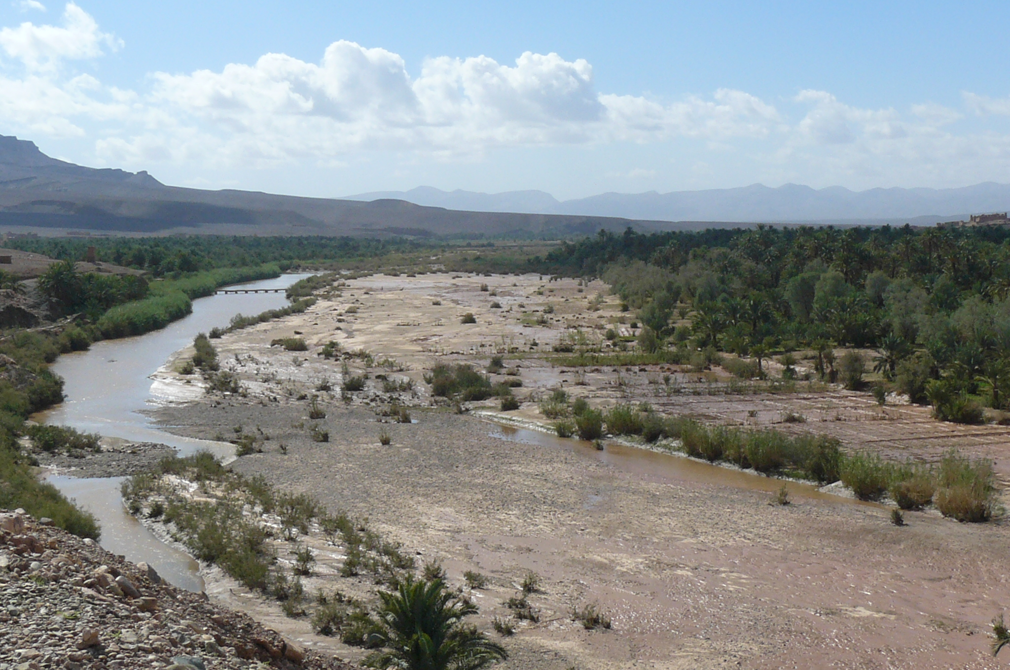 Off road between Zagora and Tinerhir, Morocco